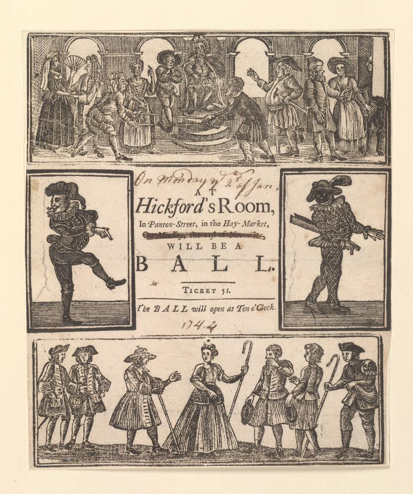 Ticket of Hickford's Room, [Monday ye 2nd of Jan, 1744], announcing A ball; "the ball will open at ten o'clock"; Ball; [Ticket of Hickford's Room, [Monday ye 2nd of Jan, 1744], announcing A ball ]